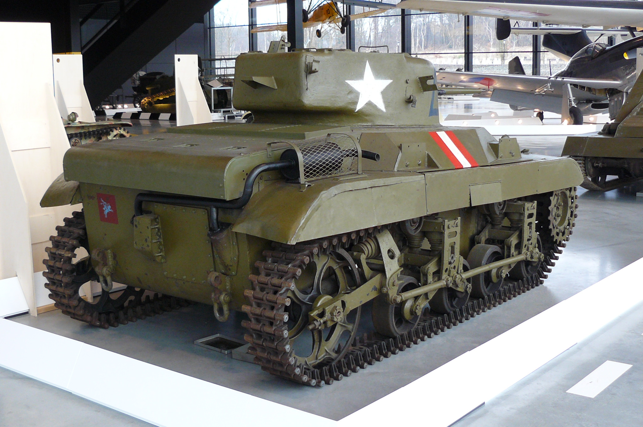 M22 Locust in the Dutch Nationaal Militair Museum (rearview)